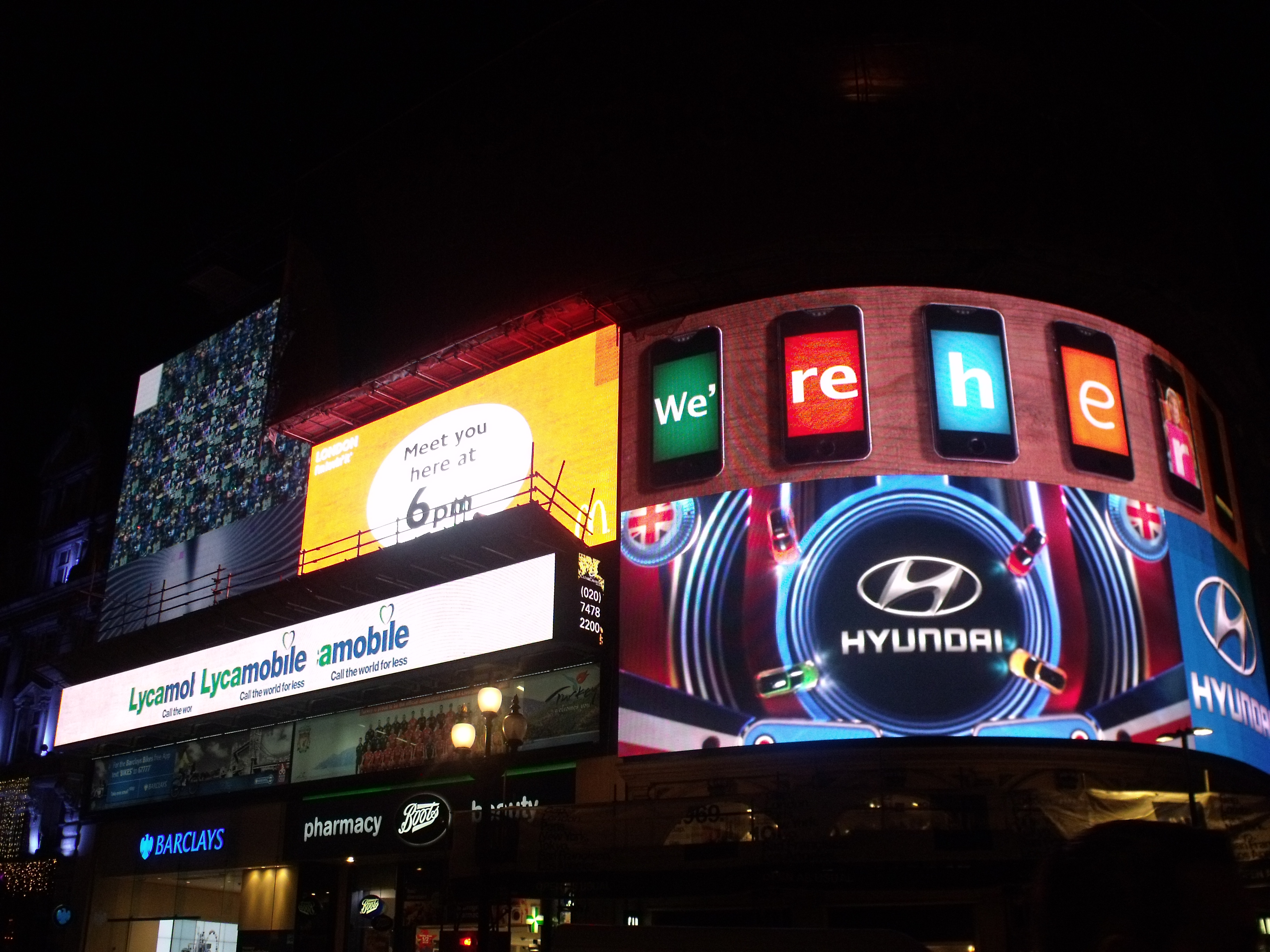 Piccadilly Circus in London. The famous advertisment displays. That keeps changing. Had to see it for myself. Looks good. Piccadilly Circus at night. Lyca Mobile and Hyundai. Meet you here at 6pm